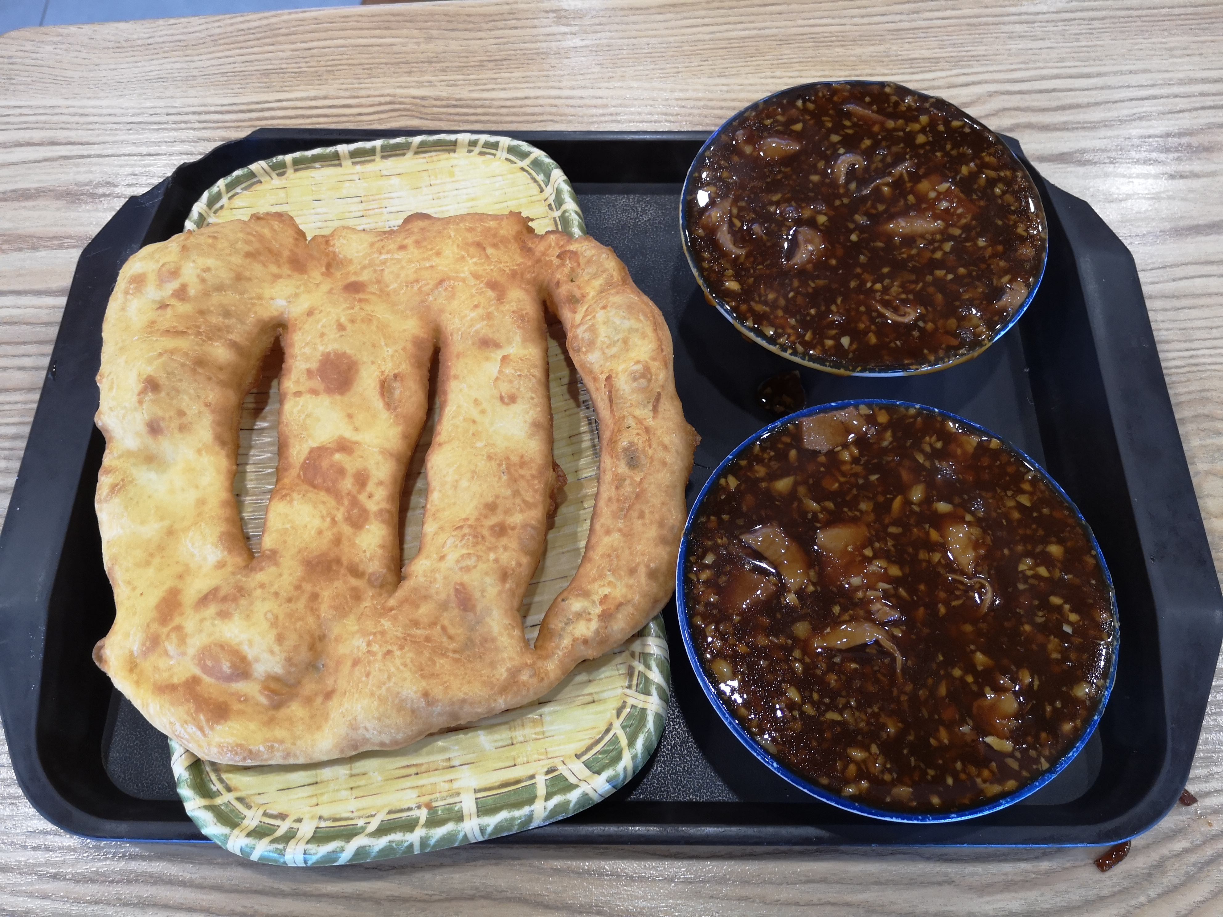 This photo has been taken in the country: China